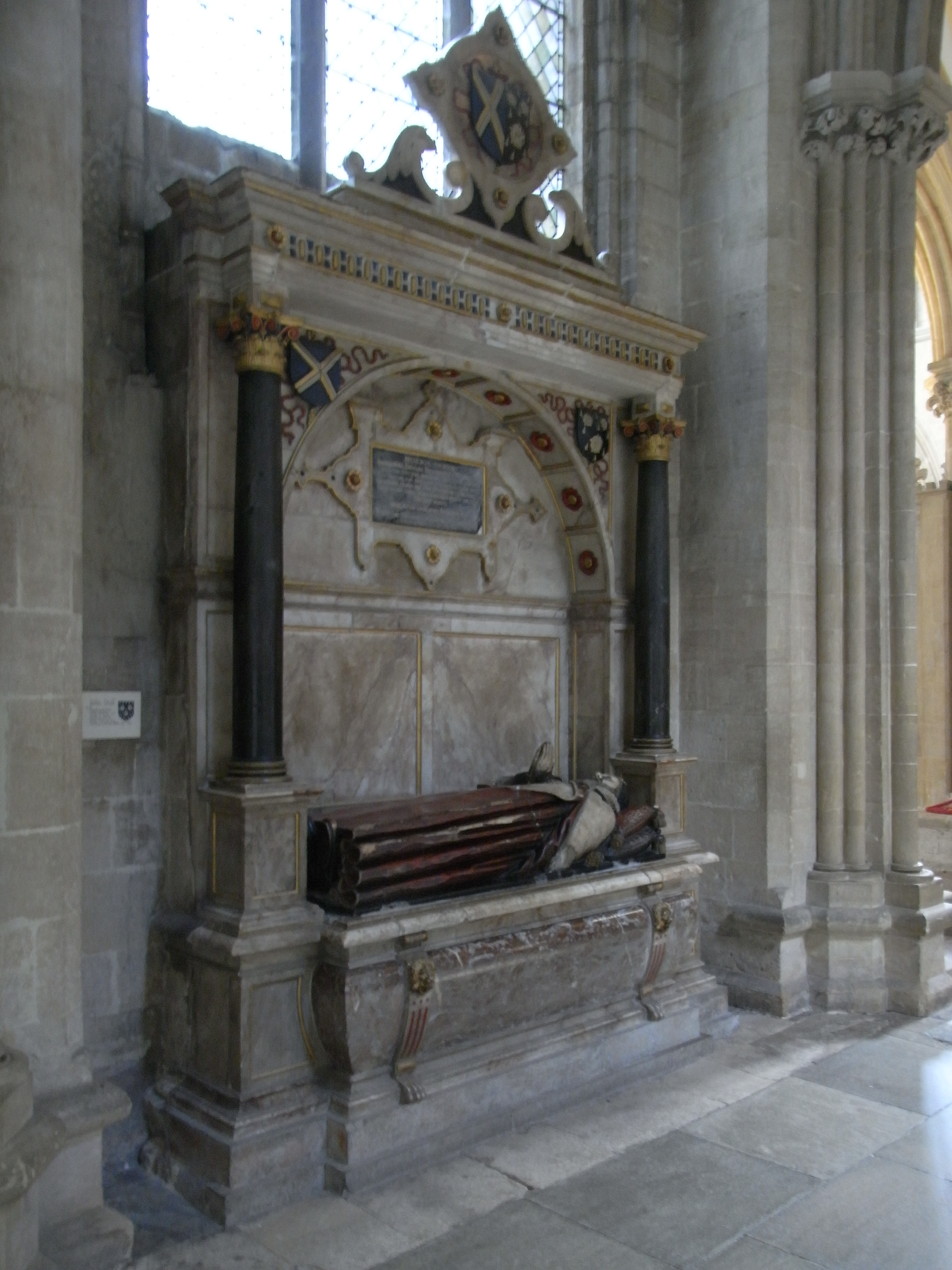 The tomb of John Still (c. 1543 – 26 February 1607/8), the Bishop of Bath and Wells, along the east wall of Wells Cathedral, Wells, Somerset, England, UK, in the north transept leading into the Chapter House. Erected by Nathaniel Still, his son, the tomb bears the following Latin inscription: Memoriae sacrum Joanni Still Episcopo Bathoniensi et Wellensi, Sacras Theologia Doctori Acerrimo Christianae Veritatis propugnatori non minus vitas integritate quam veria doctrina claro qui cum Domino diu vigilasset in Christo spe certa resurgendi obdormivit die XXVI Februarii mdcvii Vixit annos LXIIII sedit episcopus XVI Nathaniel Still filius primogenitus optimo patri maerens pietatis ergo posuit [Sacred to the memory of John Still Bishop of Bath and Wells, Doctor of Theology, keenest warrior for Christian Virtue famed not less in integrity of life than for True Doctrine who when he had long kept vigil with the Lord went to sleep in Christ on the 26th day of February 1607 in the certain hope of rising again. He lived for 64 years, sat as Bishop for 16. Nathaniel Still first-born son mourning the best father thus placed it of piety.] On the upper part of the tomb are three escutcheons. From left to right they are: (1) azure, a saltire per saltire and per cross counter changed argent and Or (the coat of arms of the See of Wells); (2) the same, impaling the Still coat of arms; and (3) the Still coat of arms.